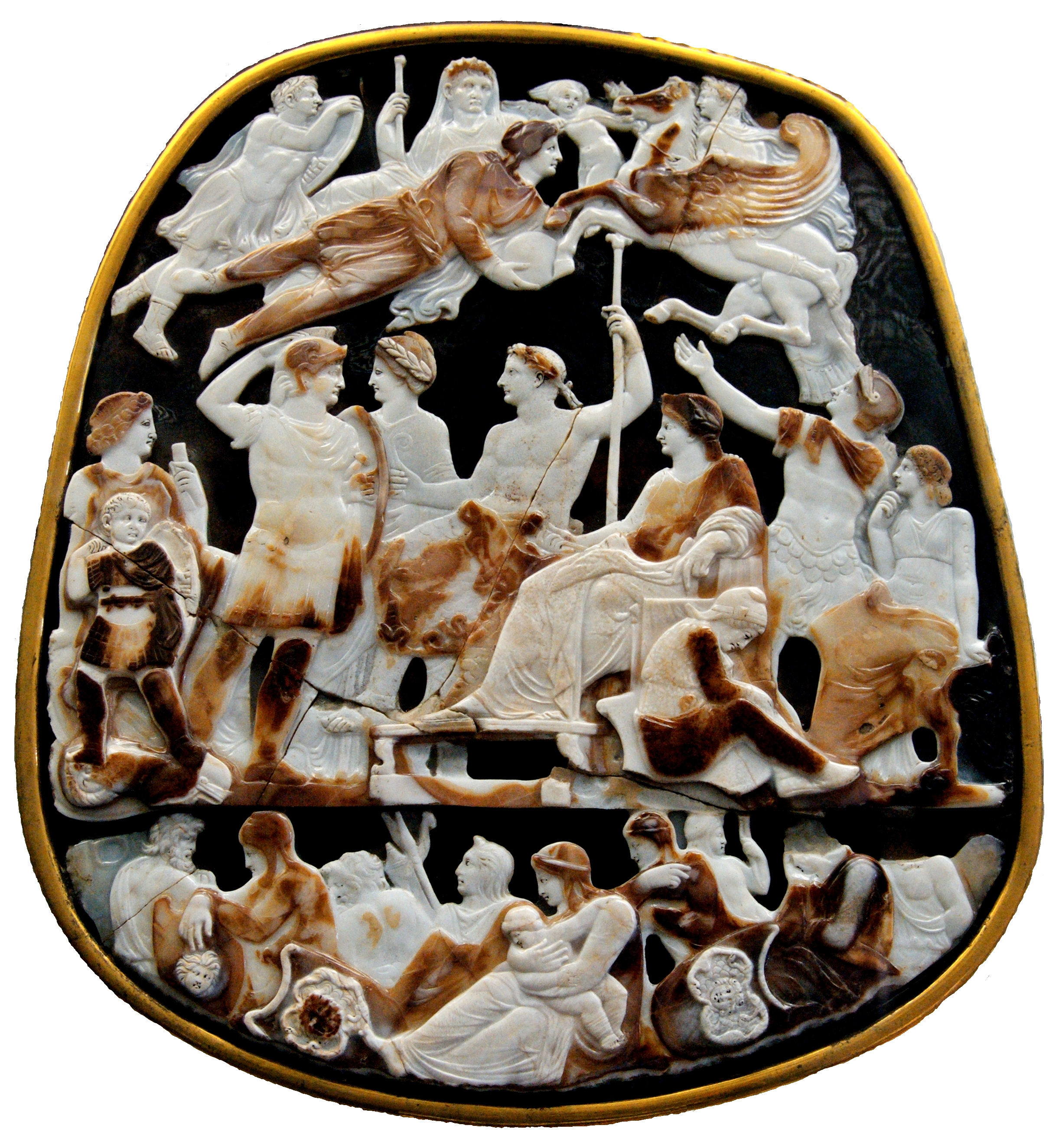 So-called Great Cameo of France. Five-layered sardonyx cameo, Roman artwork, second quarter of the 1st century AD.